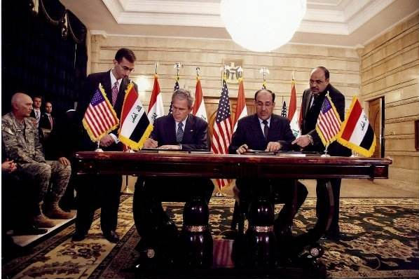 Photo of Ali Khedery